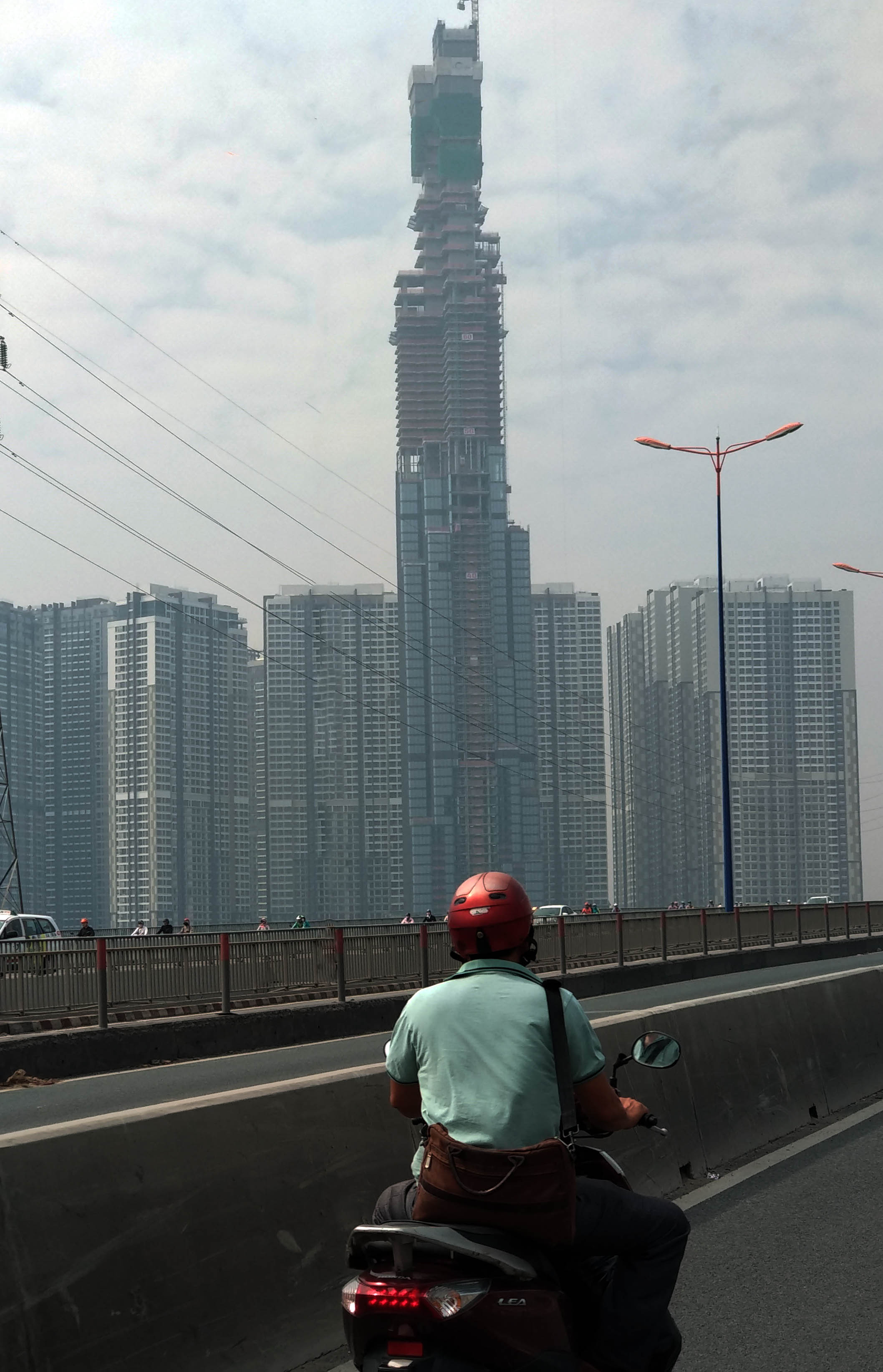 Saigon's Landmark 81 tower under construction as seen from Saigon Bridge